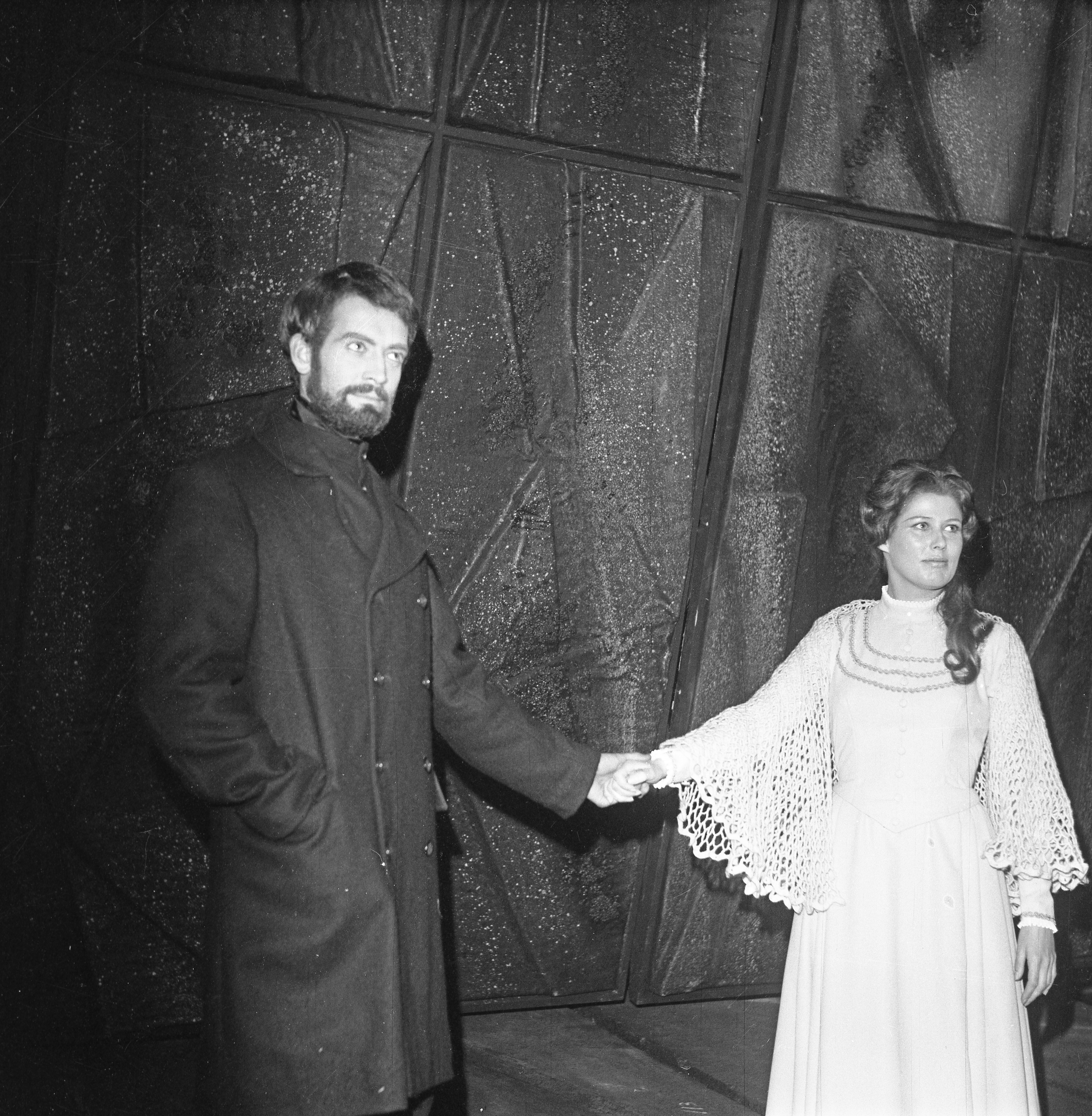 Format: 120 mm sort/hvitt negativ Dato / Date: 1968 Fotograf / Photographer: Eirik Sundvor (1902 - 1992) Sted / Place: Den Nationale Scene, Bergen Arne Aas as Brand and Inger Marie Andersen as Agnes in Brand at Den Nationale Scene in Bergen in 1968. Source: Sceneweb Wikipedia: Arne Aas (1931 - 2000) Wikipedia: Brand Eier / Owner Institution: Trondheim byarkiv, The Municipal Archives of Trondheim Arkivreferanse / Archive reference: Tor.H43.B78.F14671 Merknad: Arne Aas i rollen som Brand ved Den Nationale Scene i Bergen 1968.